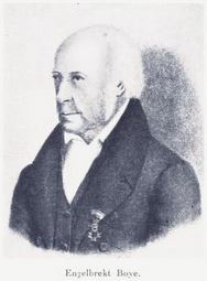 Danish-borh educator in Norway Engelbreth Boye (1754–1839)